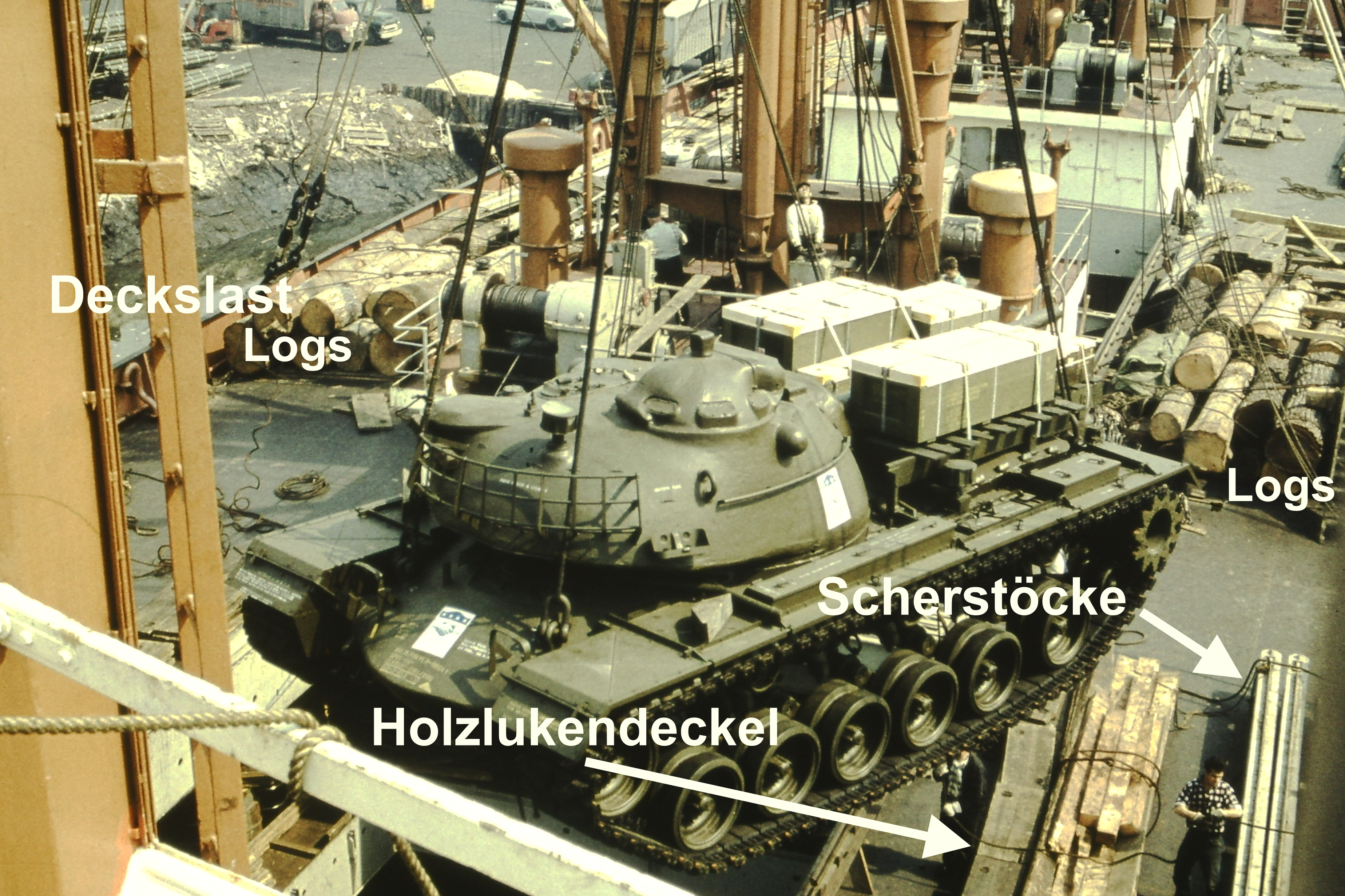 Loading a cargo ship - NY 1959